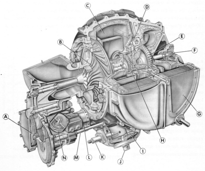 Gas-turbine engine of the Chrysler Turbine Car. Cutaway, left side view.